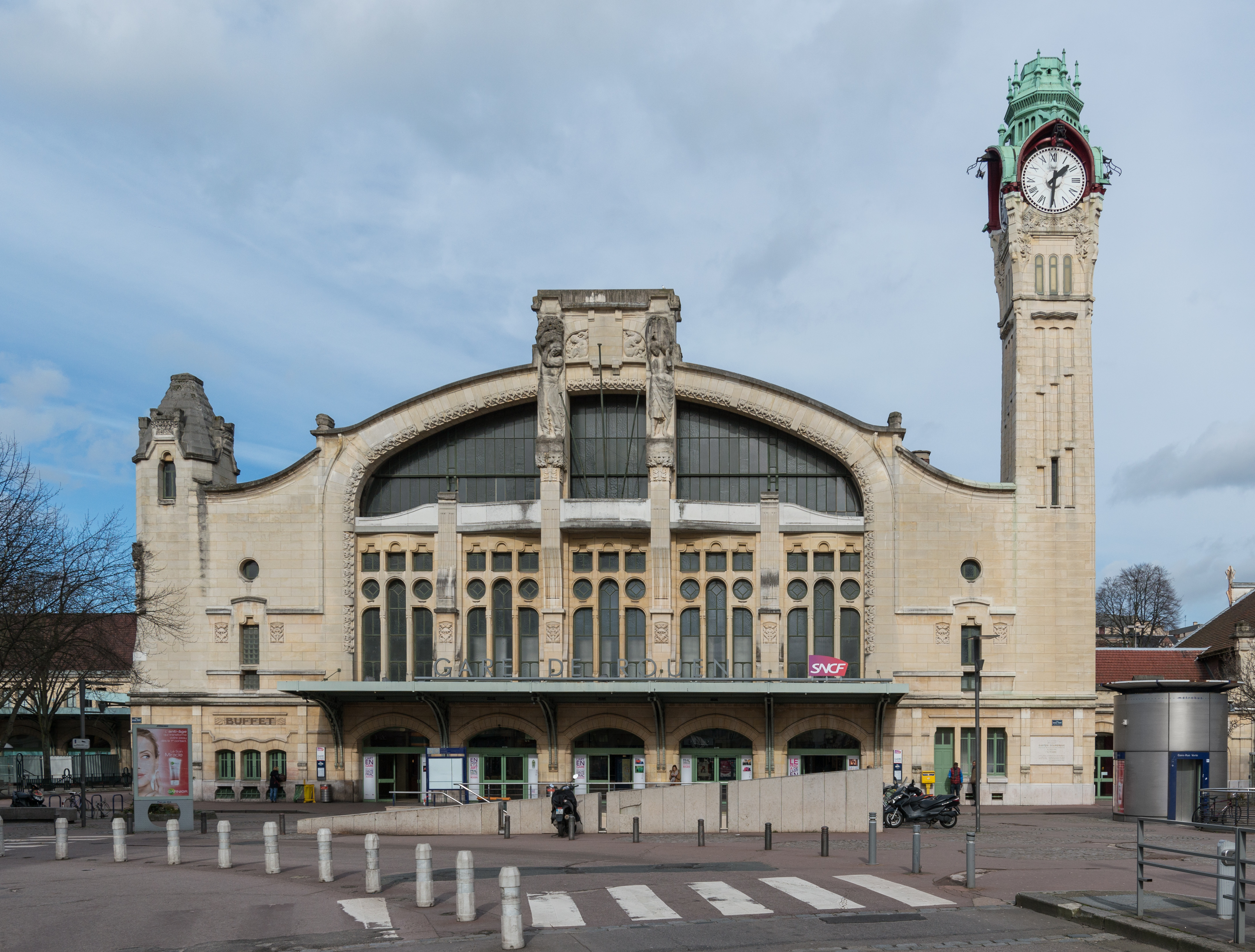 The Rouen-Rive-Droite Station as seen from south.